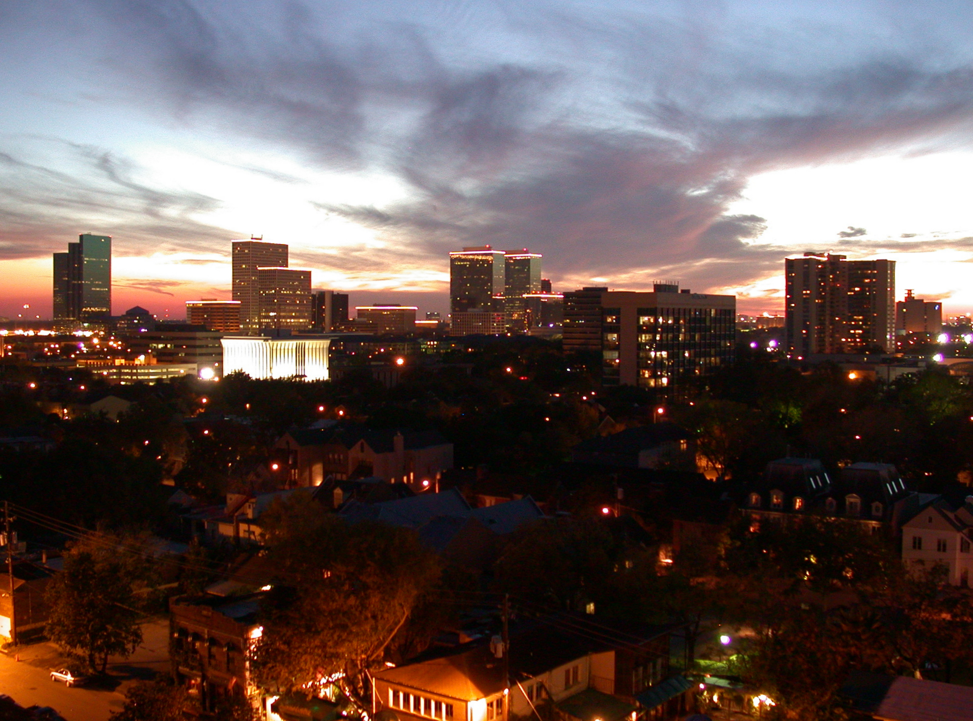 Skyline of Greenway Plaza in Houston